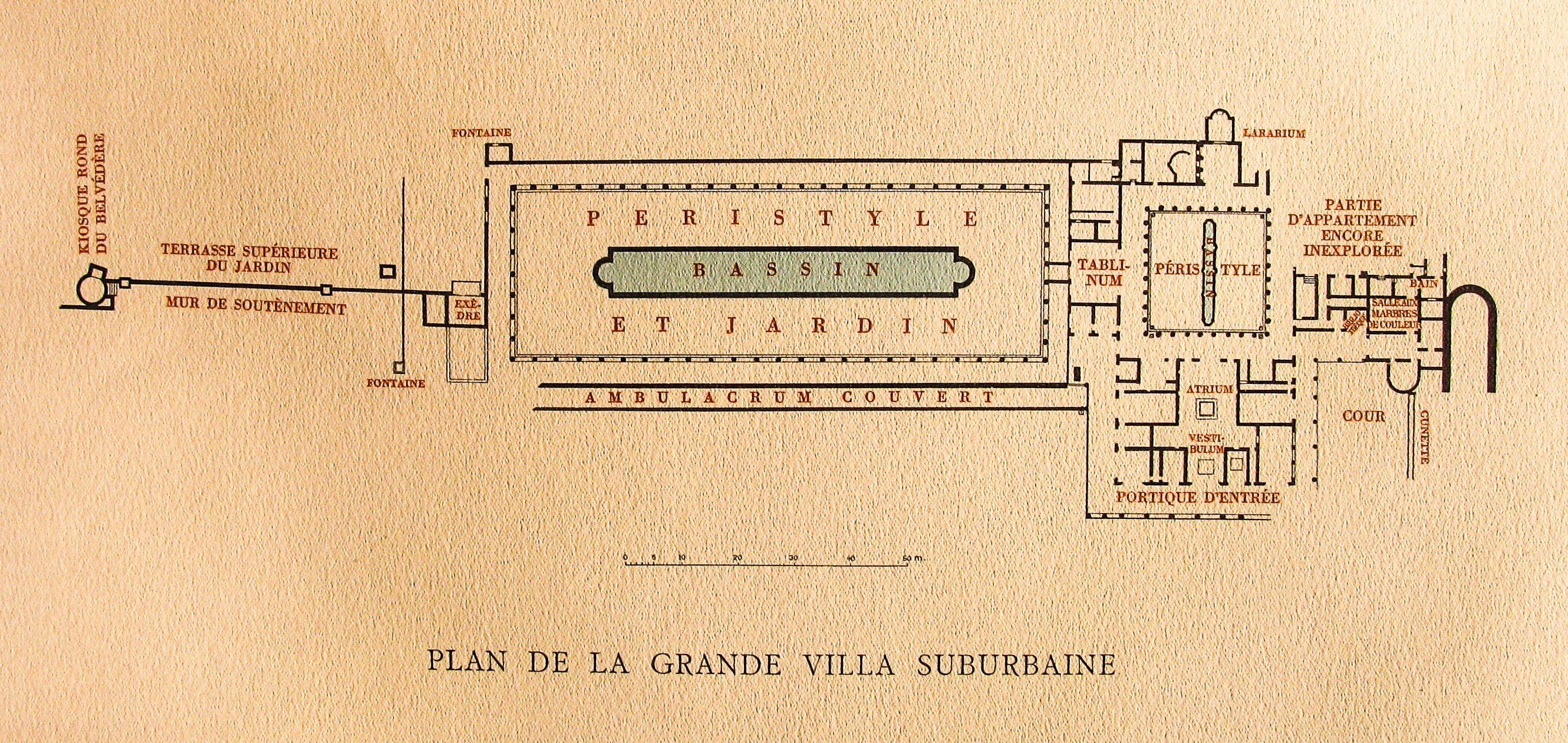 Map of Villa of the Papyri Herculanum. Drawn in XVIIIth century by Charles Weber